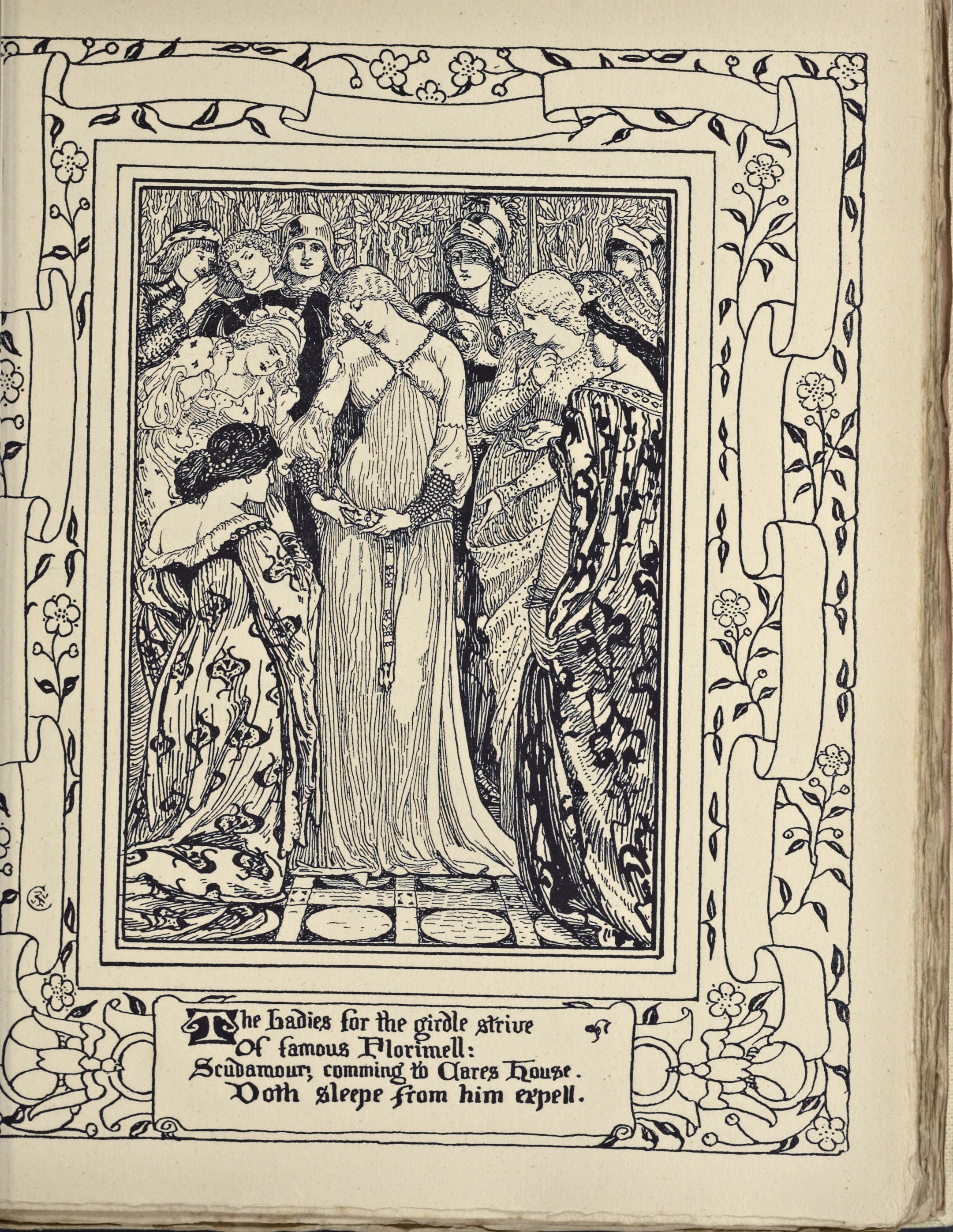 Title: Spenser's Faerie queene. A poem in six books; with the fragment Mutabilite Year: 1895 (1890s) Authors: Spenser, Edmund, 1552?-1599 Wise, Thomas James, 1859-1937 Crane, Walter, 1845-1915 Subjects: Publisher: London, G. Allen Text Appearing Before Image: ' Text Appearing After Image: '